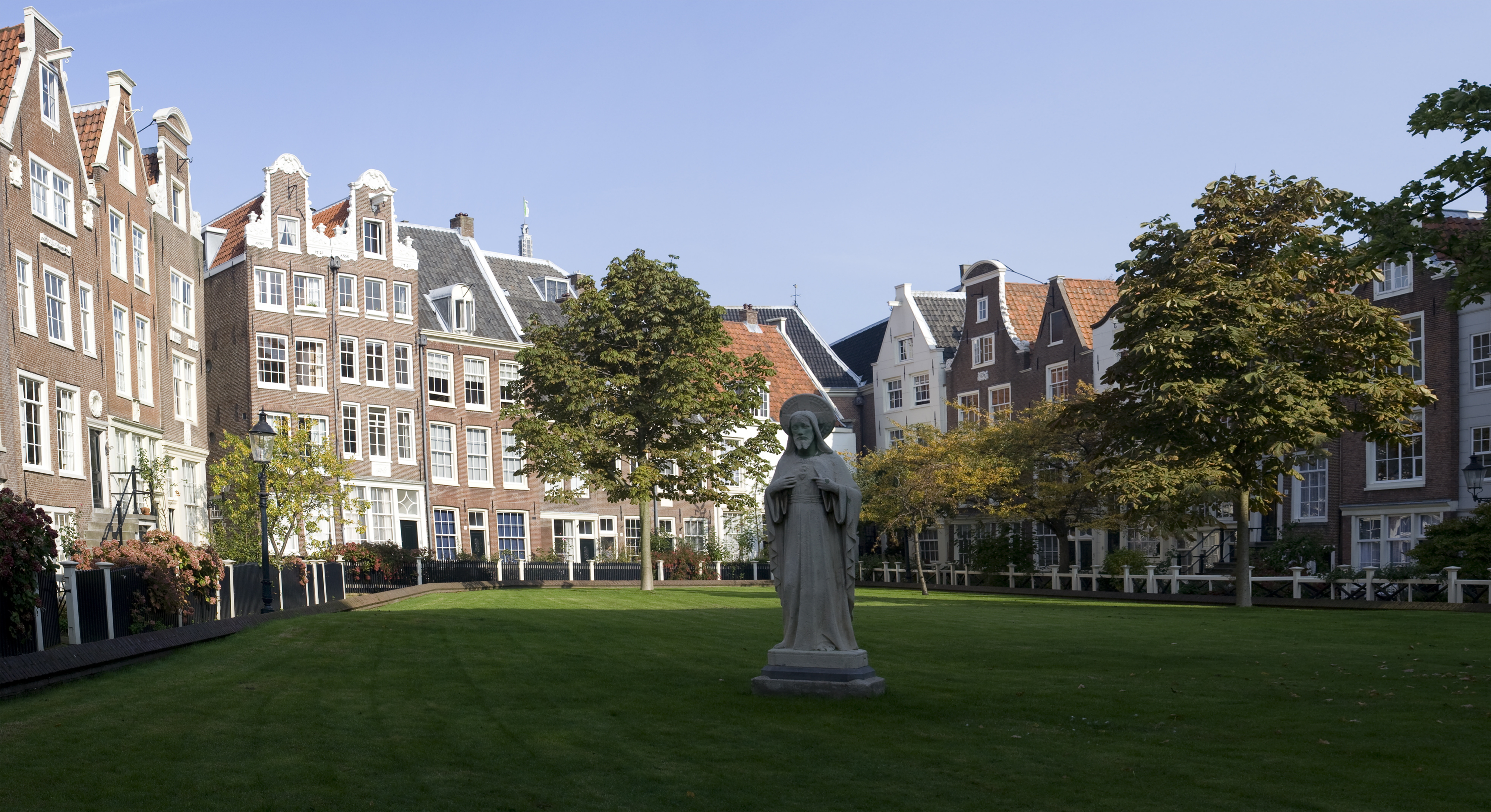 A panorama of the Begijnhof in Amsterdam, The Netherlands.